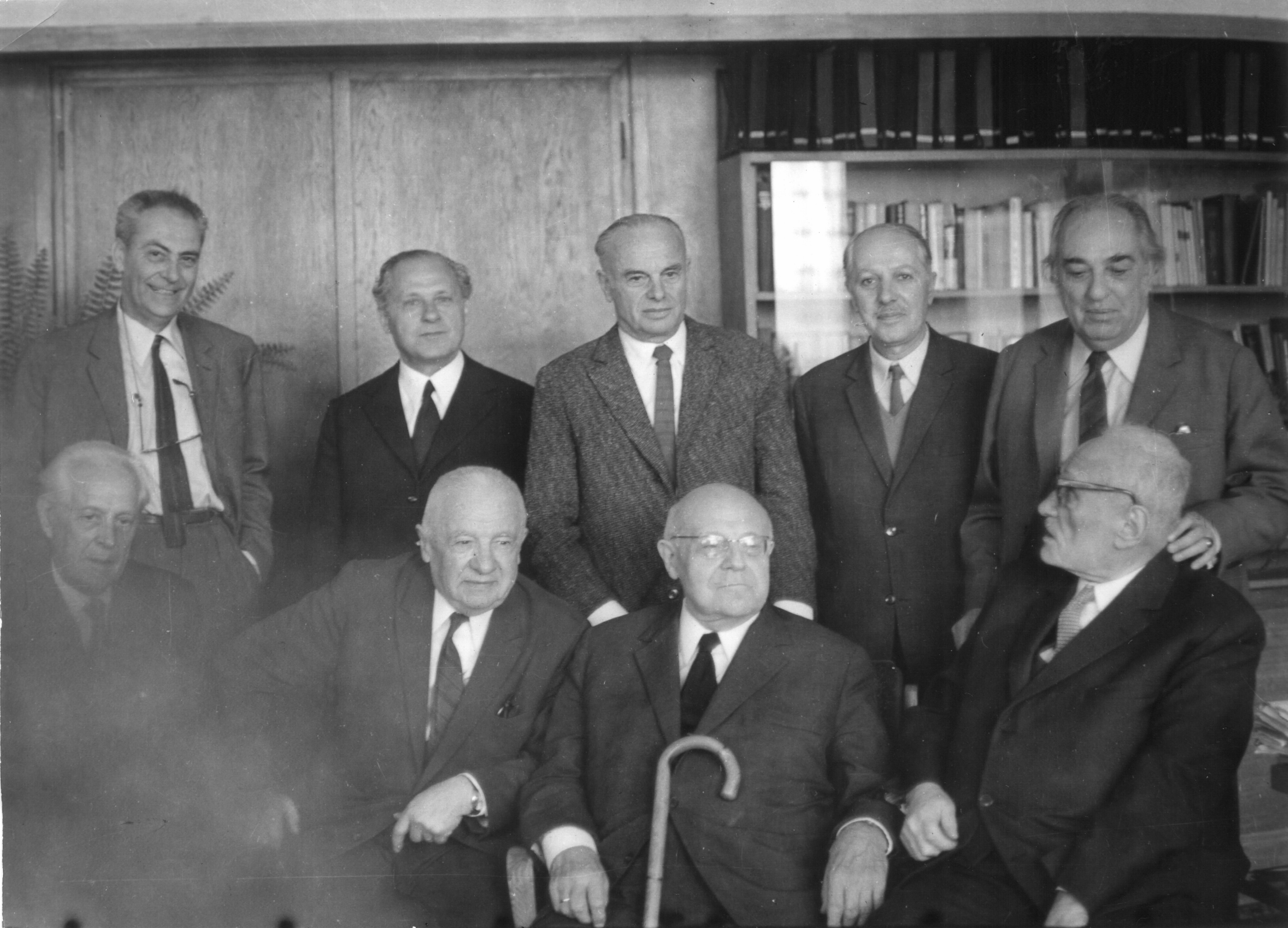 A. Scheludko, D. Totomanov, E. Jakov, S. Khristov, R. Kaischew, Z. Mutafchiev, G. Nadjakov, I. Stranski, D. Ivanov